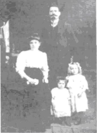 Aleksandar Razvigorov with his family